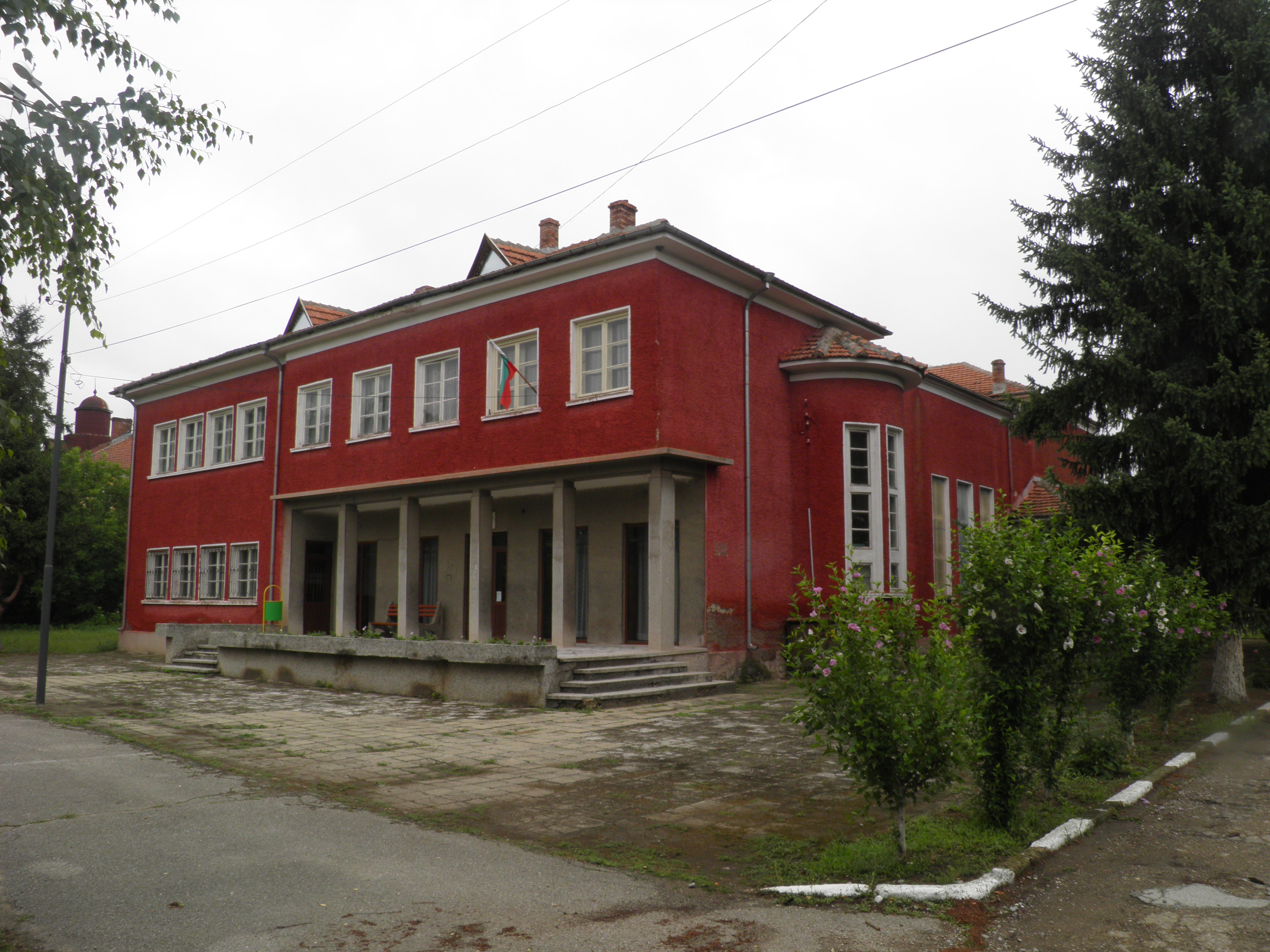 Krusheto,Veliko Tarnovo Province